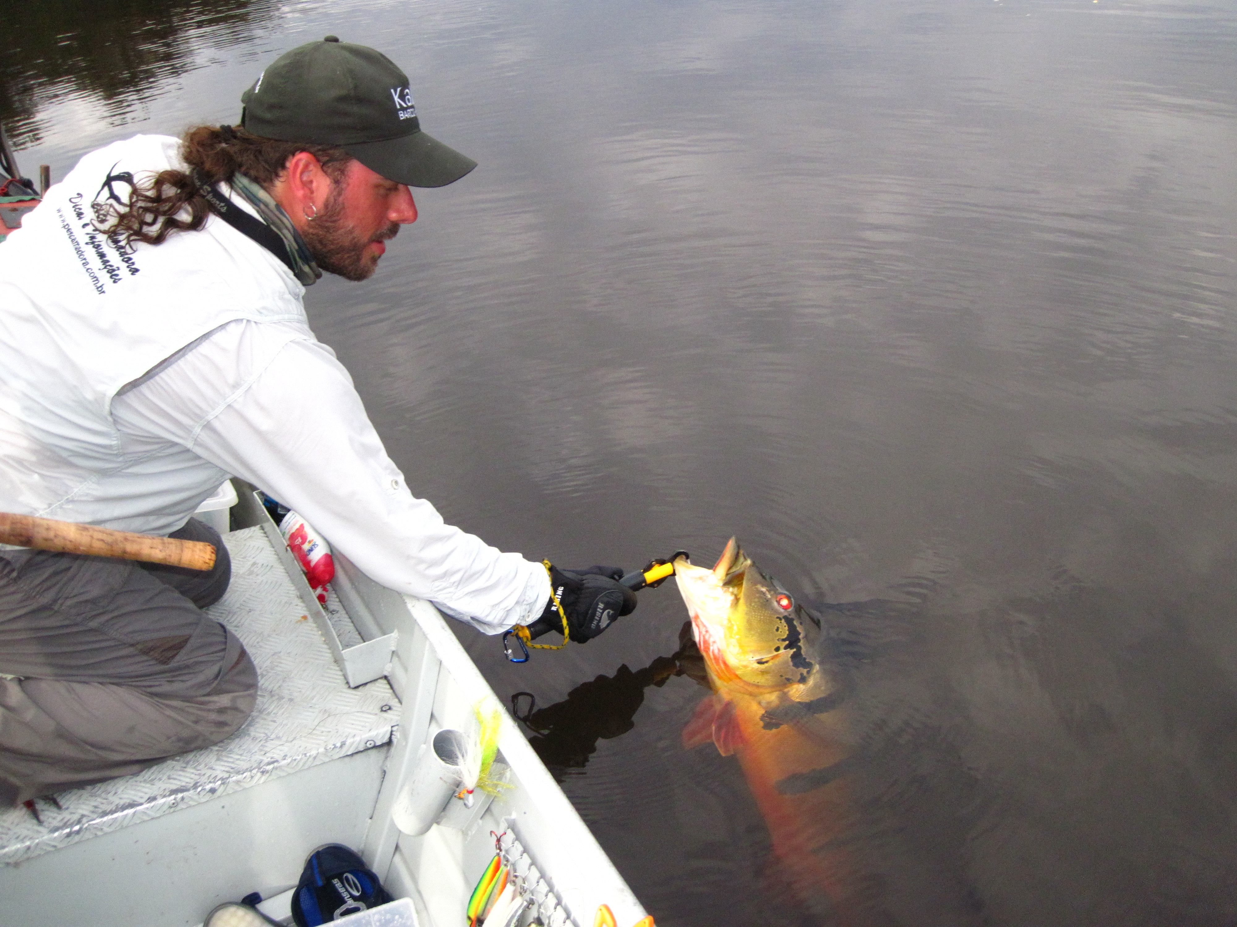 Sport fishing in the Brazilian Amazon will